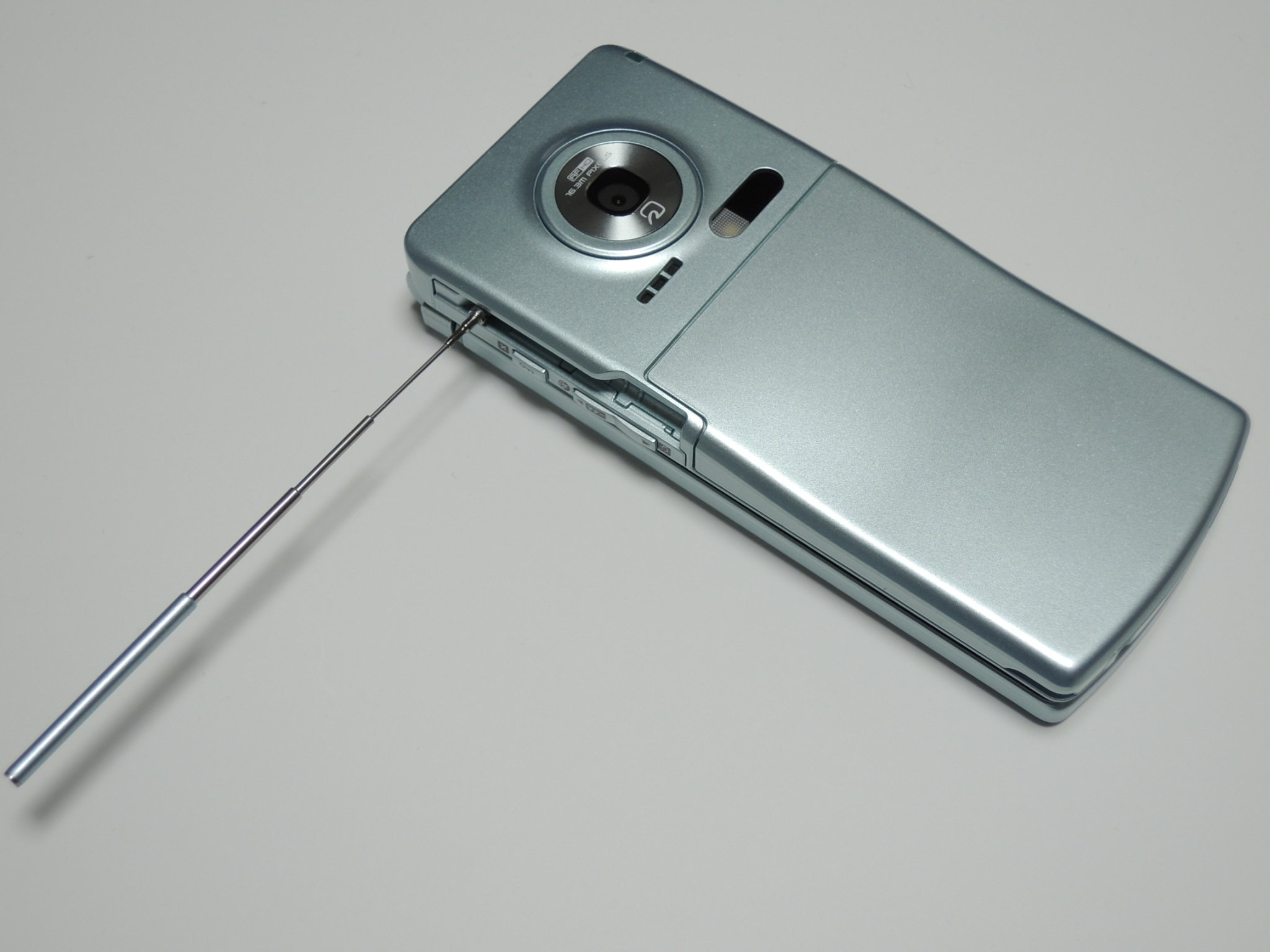 NTT docomo's mobile phone named "N-02D". This is the color of "Blue".